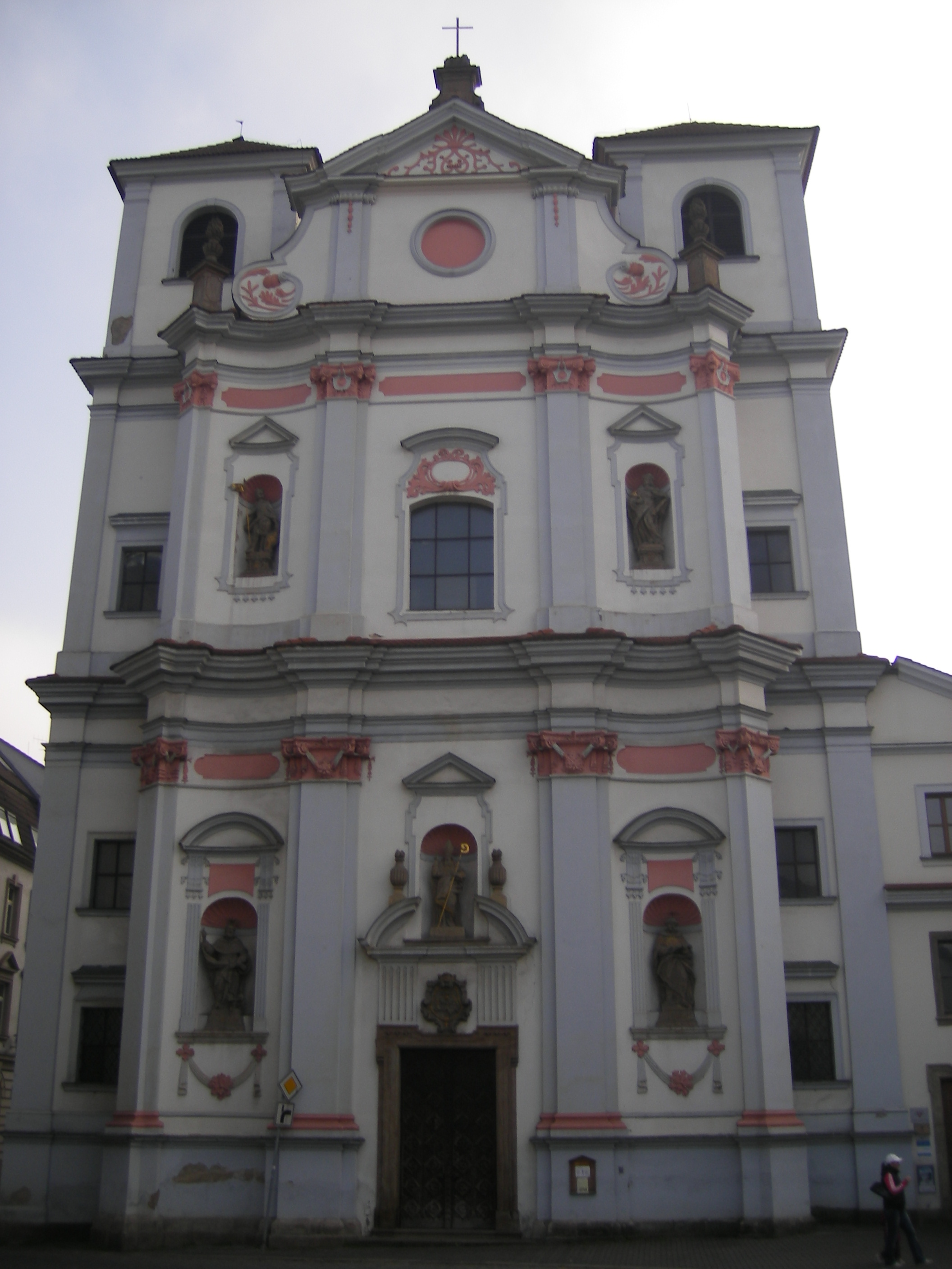 St. Adalbert’s Church in Ústínad Labem/Czech Republic